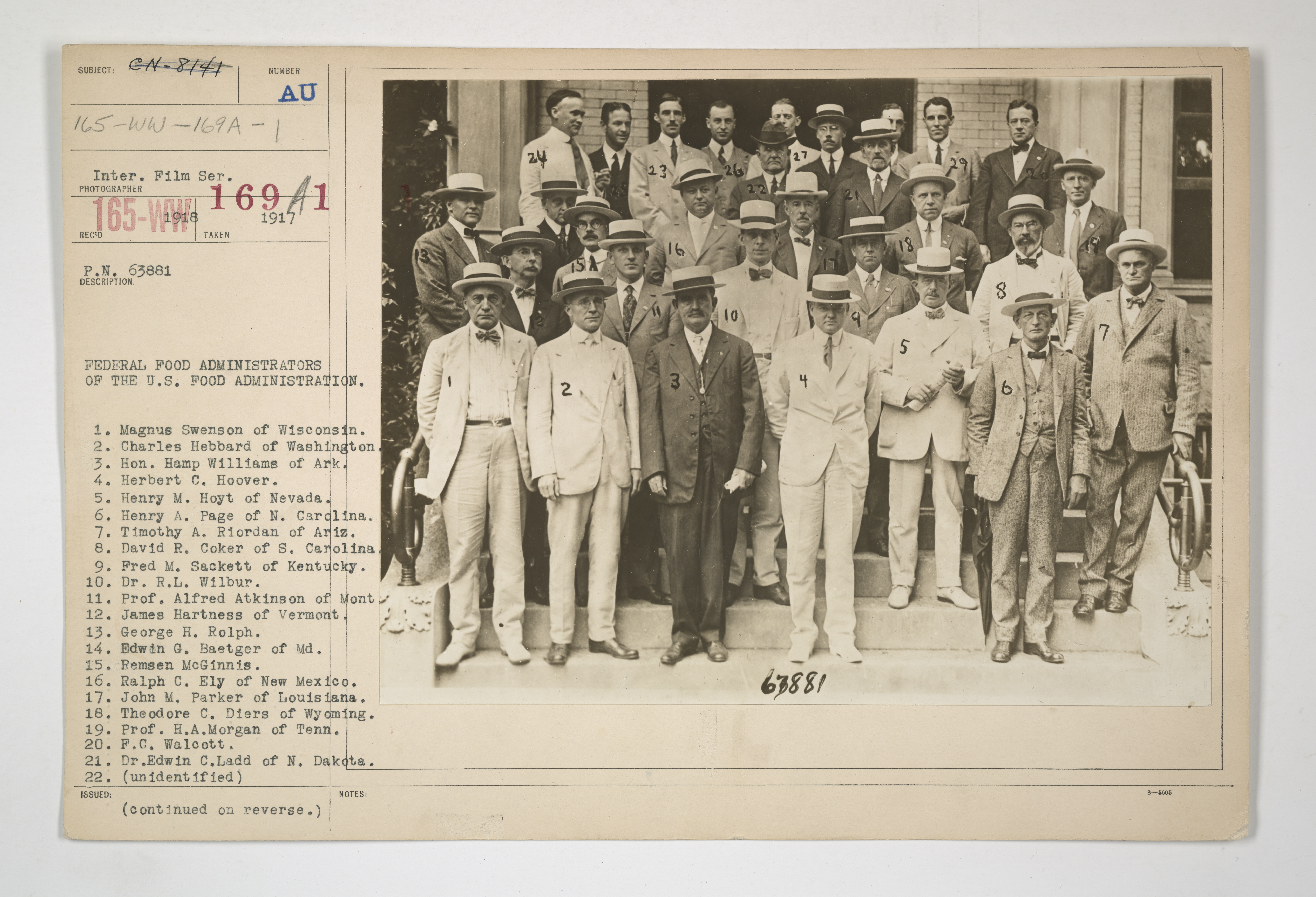 Scope and content: Original Caption: Federal Food Administrators of the U.S. Food Administration. 1. Magnus Swenson of Wisconsin. 2. Charles Hebbard of Washington. 3. Hon. Hamp Williams of Arkansas. 4. Herbert C. Hoover. 5. Henry M. Hoyt of Nevada. 6. Henry A. Page of North Carolina. 7. Timothy A. Riordan of Arizona. 8. David R. Coker of South Carolina. 9. Fred M. Sackett of Kentucky. 10. Dr. R.L. Wilbur. 11. Professor Alfred Atkinson of Montana. 12. James Hartness of Vermont. 13. George H. Rolph. 14. Edwin G. Baetger of Maryland. 15. Remsen McGinnis. 16. Ralph C. Ely of New Mexico. 17. John M. Parker of Louisiana. 18. Theodore C. Diers of Wyoming. 19. Professor H.A. Morgan of Tennessee. 20. F.C. Walcott. 21. Dr. Edwin C. Ladd of North Dakota. 22. Unidentified.